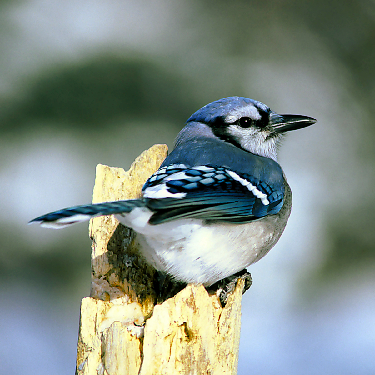 Blue Jay (Cyanocitta cristata) – DeSoto National Wildlife Refuge